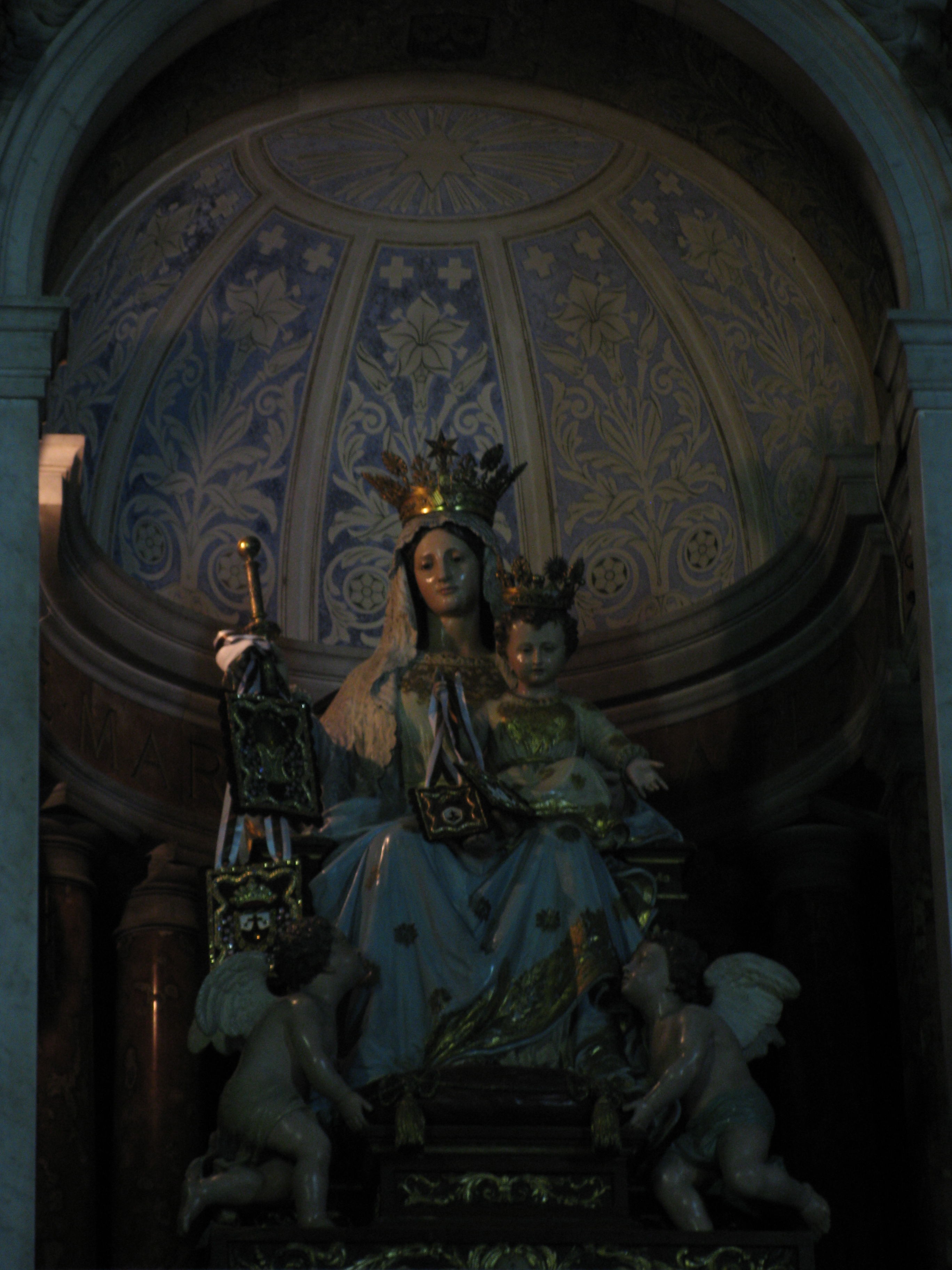 Stella Maris Monastery Interiors